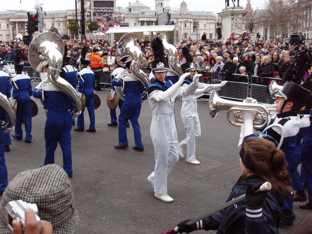 New Year Parade - Prospect Marching Knights in Trafalgar Square. One of many excellent US High School marching bands in the London New Year Parade - see Prospect Band website . They are from Prospect High School, Mount Prospect, Illinois. The two white-suited drum majors in the photo are marching backwards half way along the band, repeating the beat for the brass players following them.